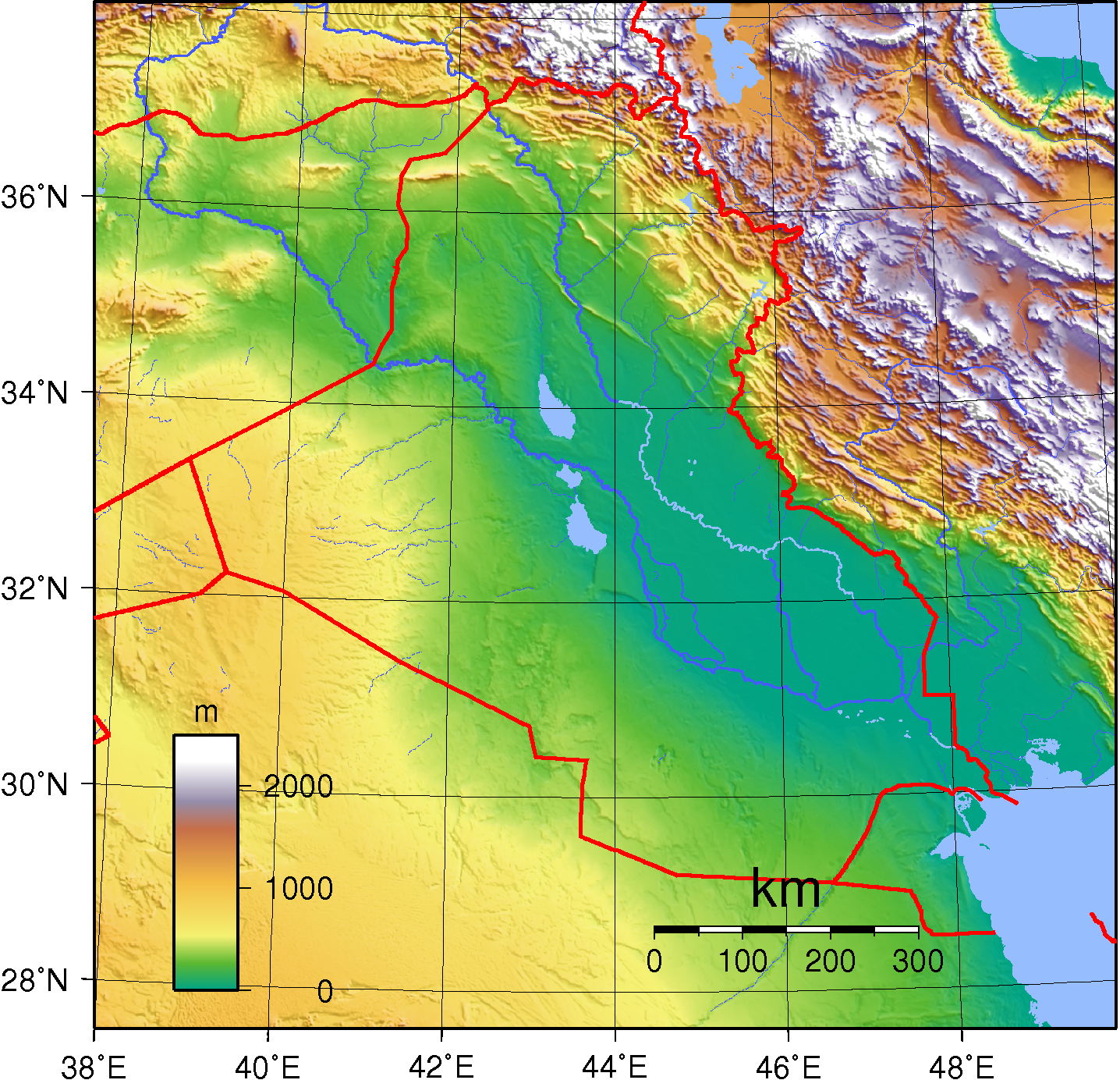 Topographic map of Iraq. Created with GMT from SRTM data